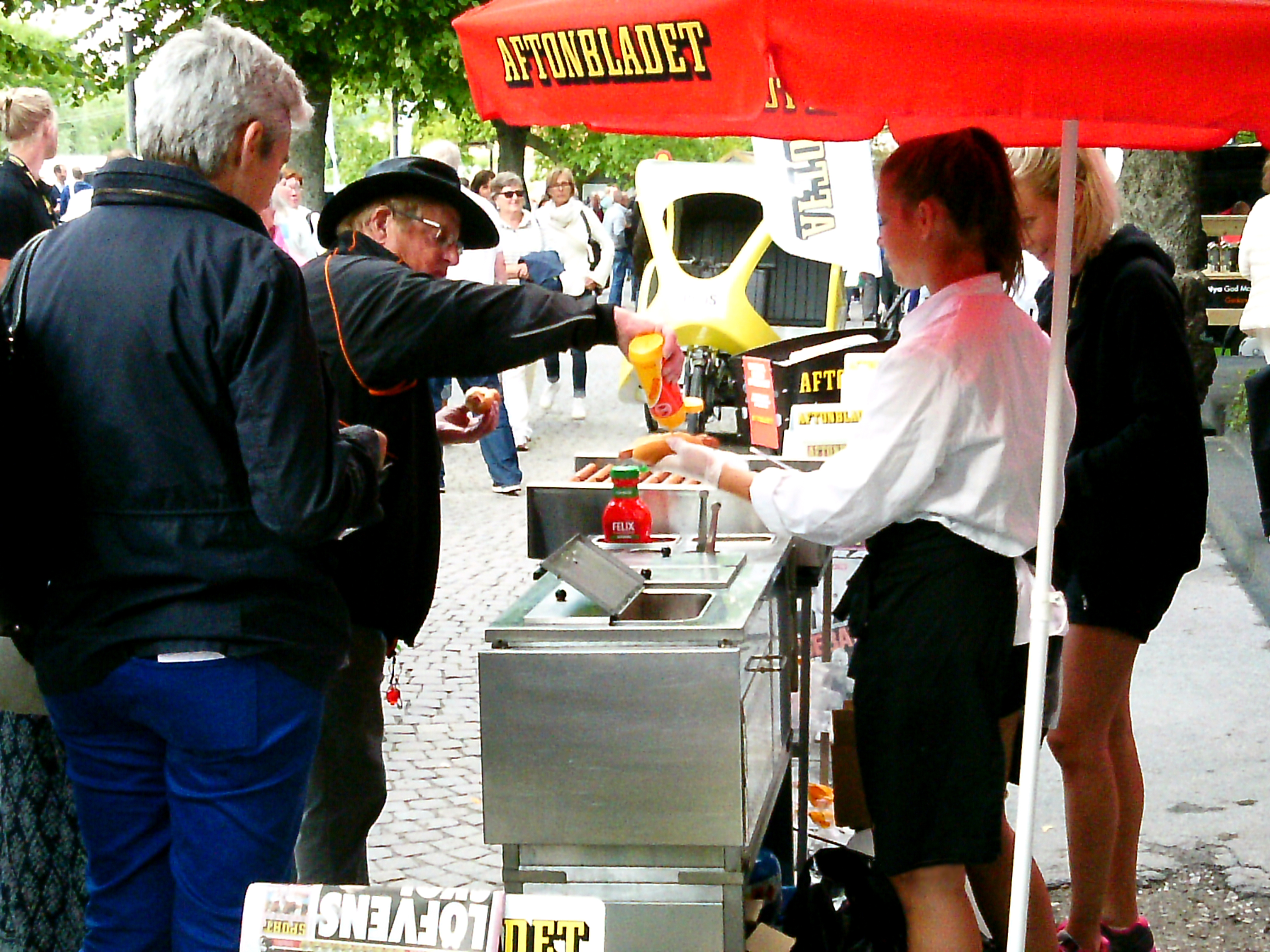 Man having a hot dog during Almedalen week 2014, Visby, Gotland, Sweden.